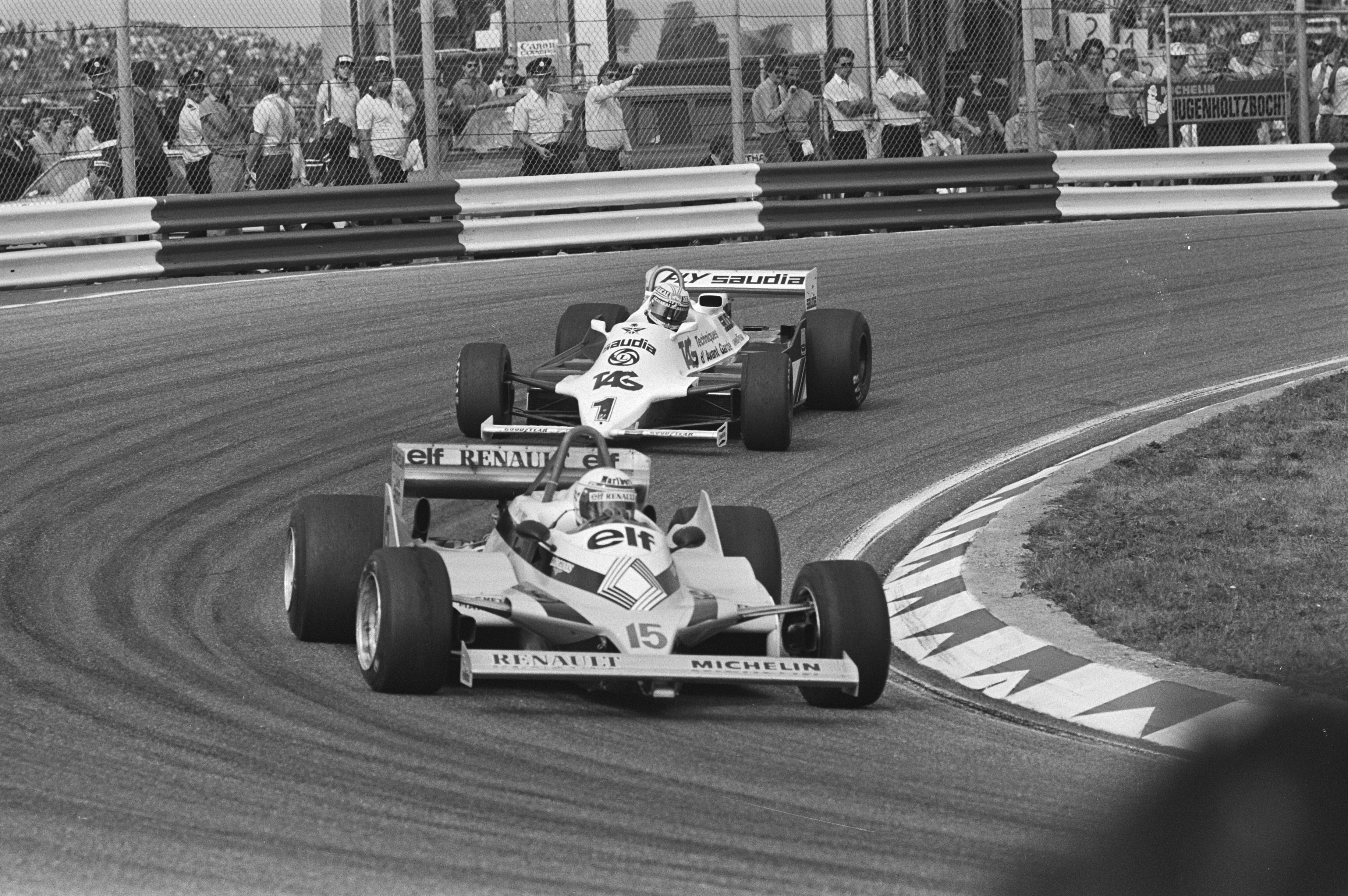 French racecar driver Alain Prost (no. 15) driving a Renault F.1 car, followed by the incumbent F.1 world champion Alan Jones of Australia driving a Williams-Ford car at 1981 Dutch Grand Prix at Zandvoord, Netherlands, eventually won by Prost.